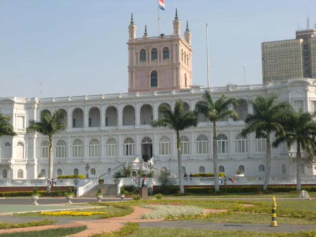 Lopez Palace in Asunción